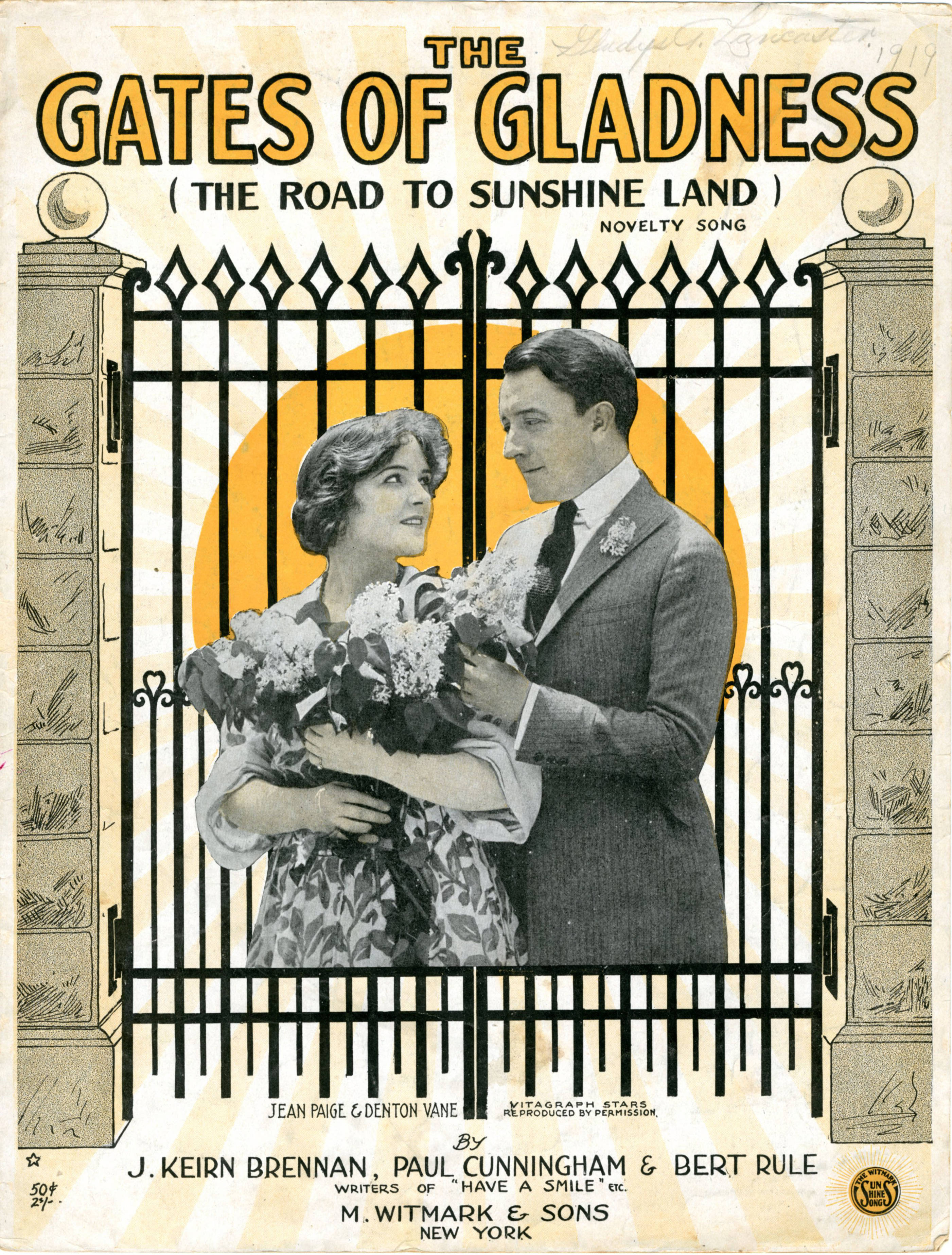 Sheet music cover: "The Gates Of Gladness : On The Road To Sunshine Land" 1 vocal score (3 p.) ; 32 cm. Illustrated cover with images of Jean Paige and Denton Vane.